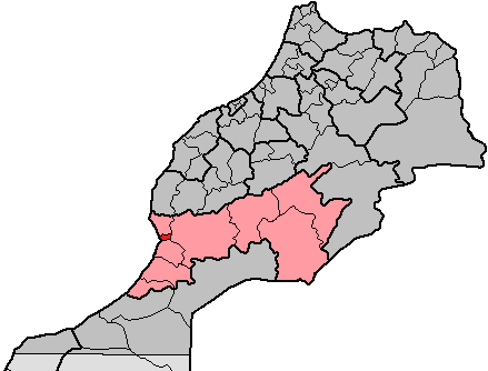 Location of the préfecture Inezgane-Aït Melloul within the region Souss-Massa-Drâa, Morocco. In total, Morocco has 16 regions, subdivided into 62 provinces and 13 prefectures.